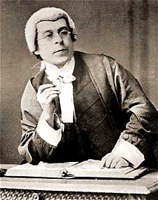 Fred Sullivan as the Learned Judge from Gilbert and Sullivan's Trial by Jury. From the cover of an edition of the Judge's Song